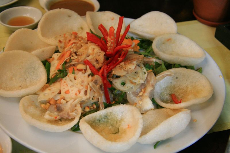 Prawn crackers